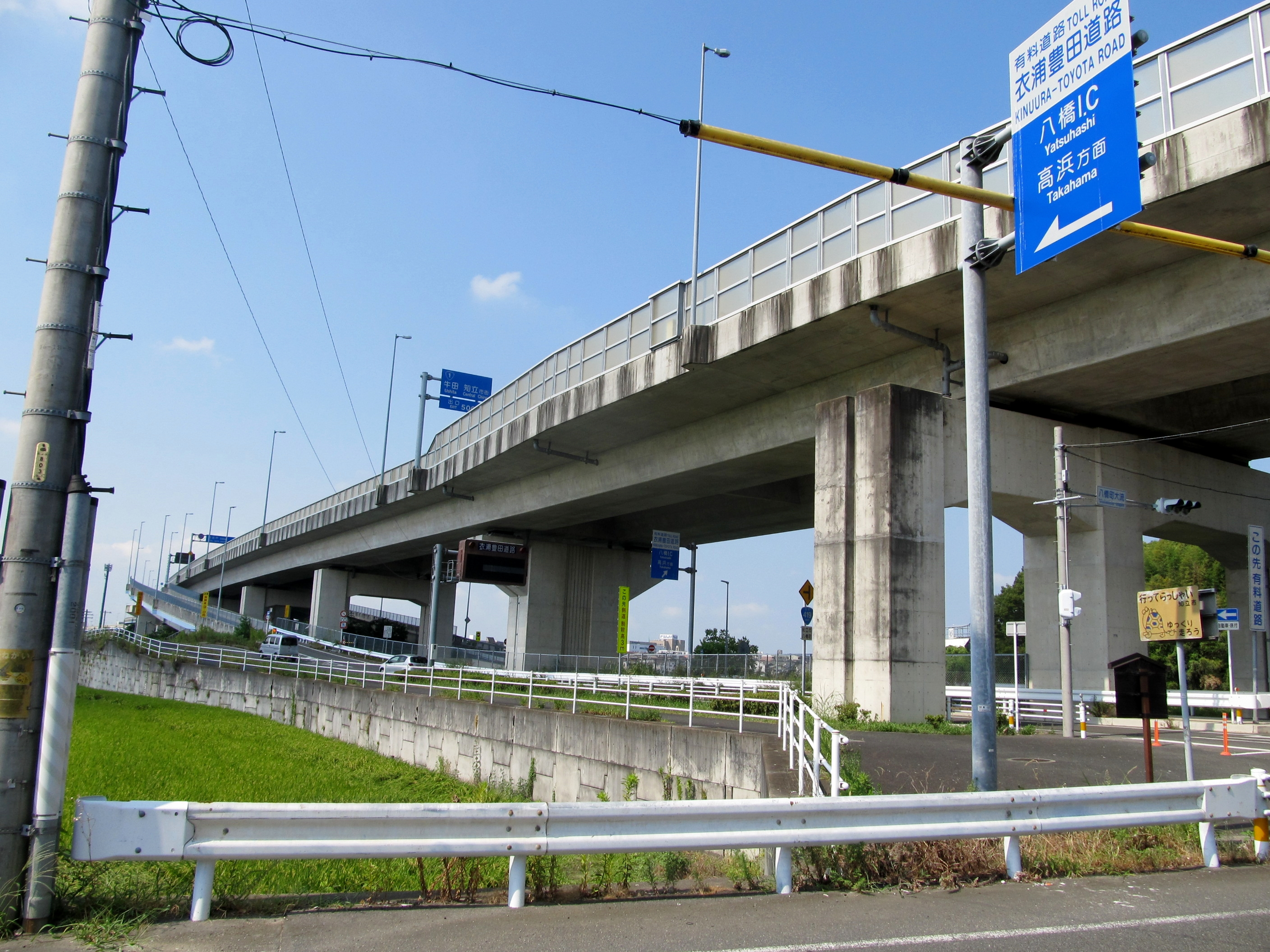 Kinuura-Toyota Road Yatsuhashi interchange, Aichi Japan